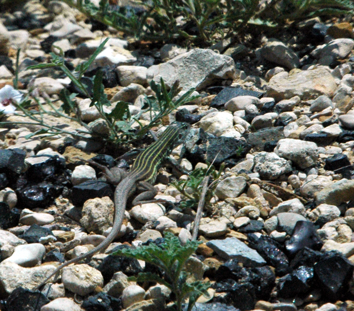 Texas Spotted Whiptail (Cnemidophorus gularis gularis)